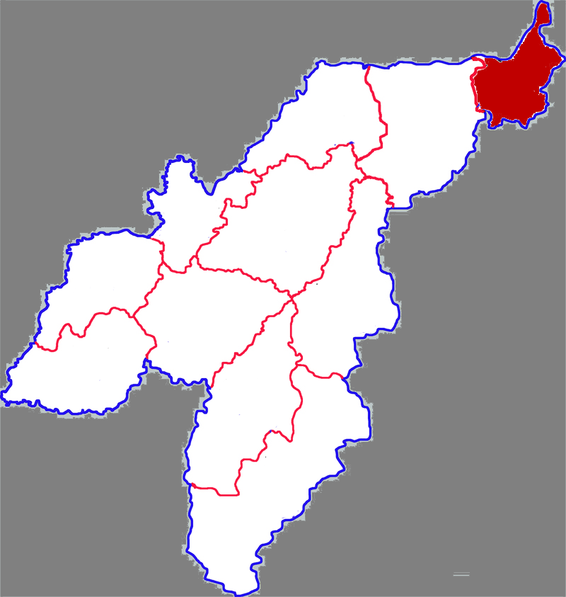 Location of Qingyun county in Dezhou City, China